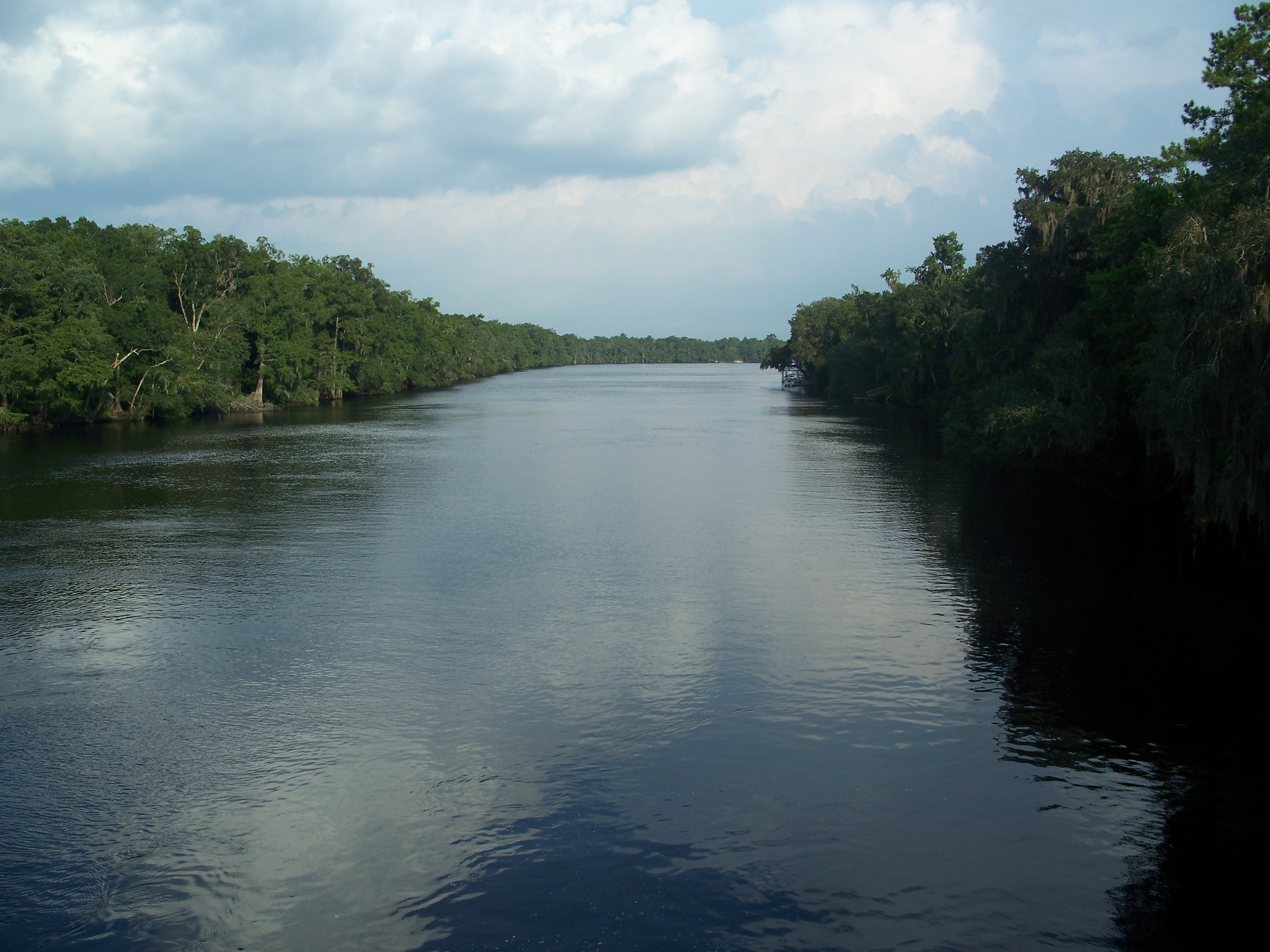 Old Town, Florida: Nature Coast State Trail, looking south at the Suwannee River from the old train trestle bridge. The wreck of the City of Hawkinsville is about 100 yards from the bridge, but not visible b/c it's submerged